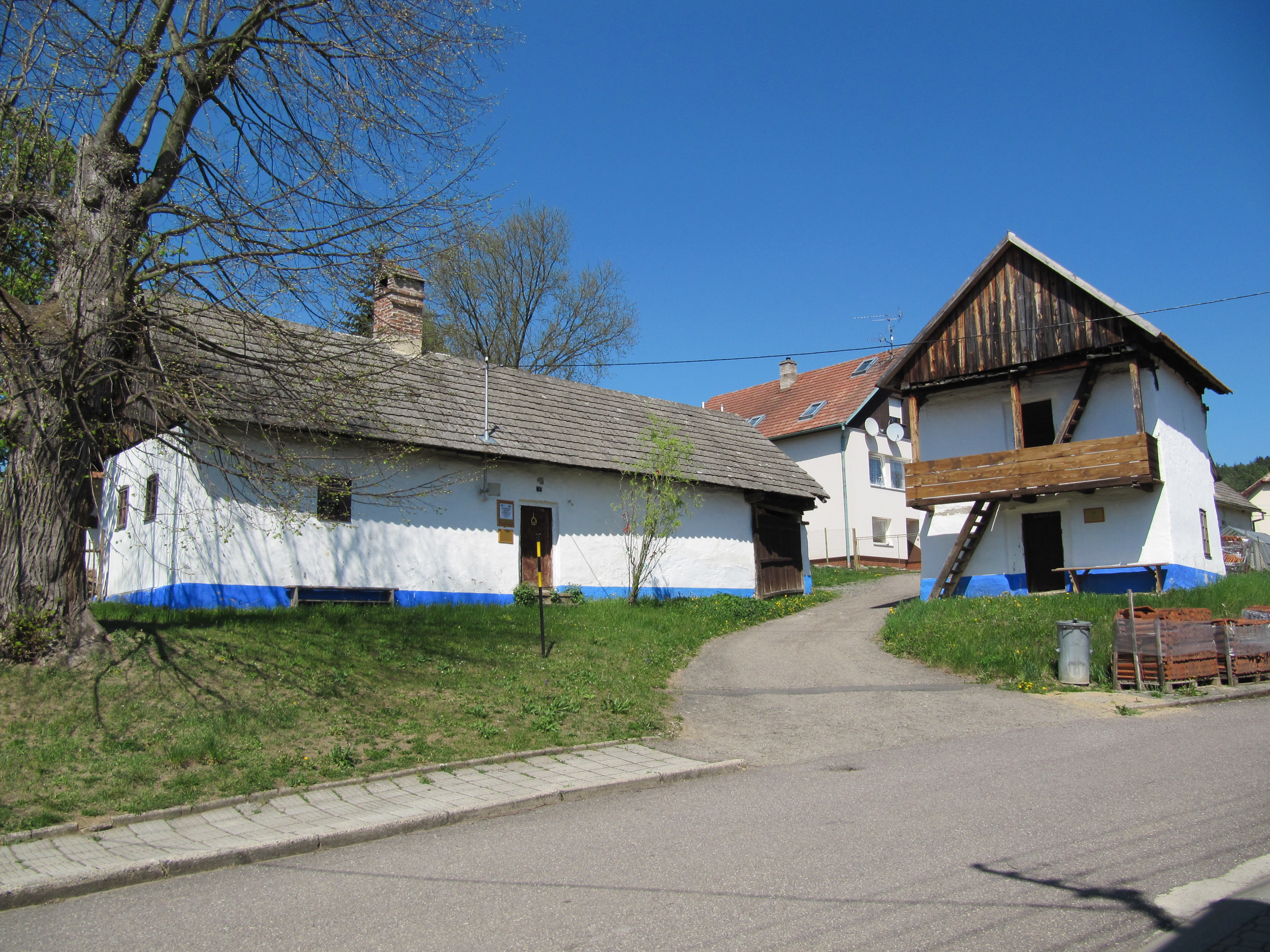 Kaňovice in Zlín District, Czech Republic. Listed house No. 19 with the chamber and gallery.